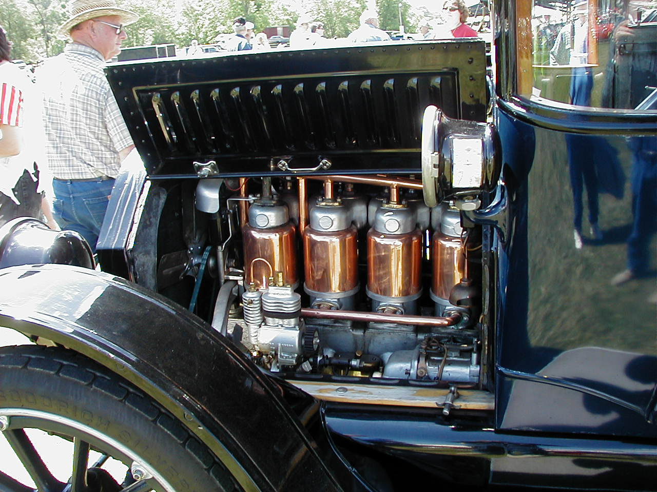 Nice looking engine!1917 Cadillac